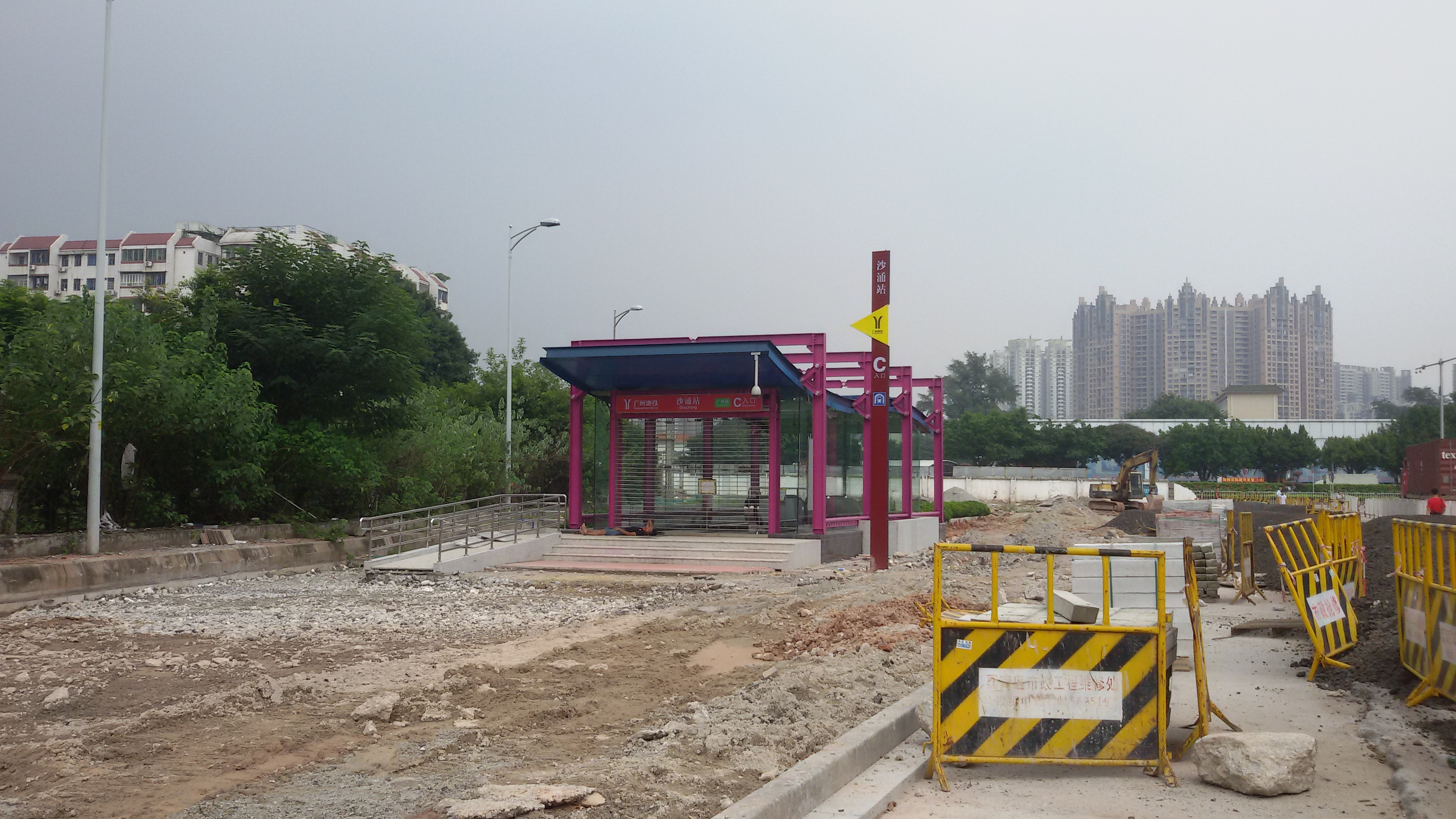 Exit C for Shachong Station in Foshan Metro (September 9th., 2015).